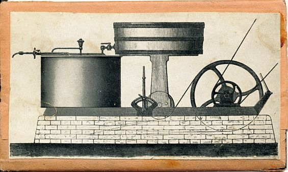 A continous cream-milk separator marketed by Maglekilde Machine Factory in 1878.